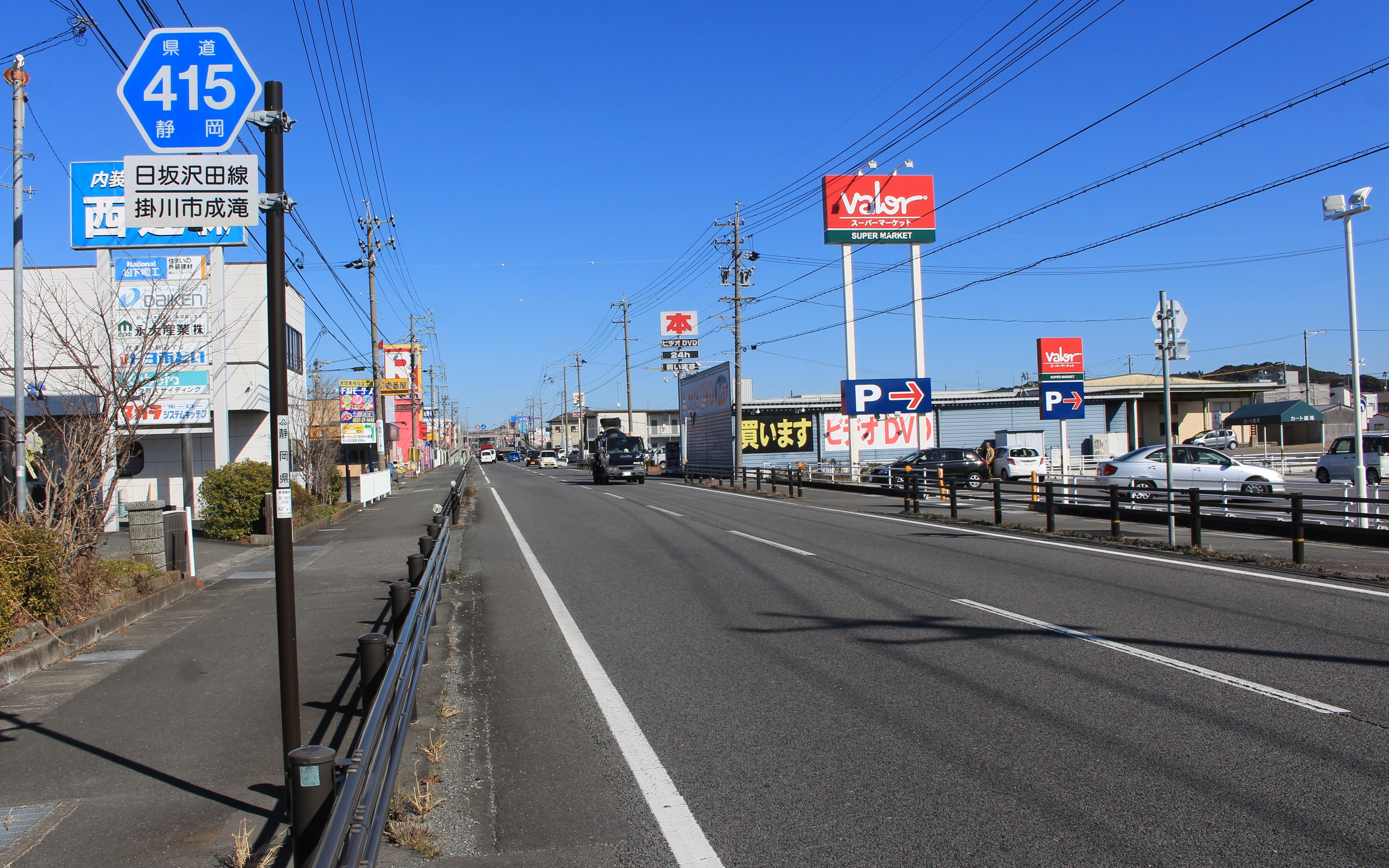 Shizuoka Prefectural Road Route 415 in Kakegawa, Shizuoka prefecture, Japan.